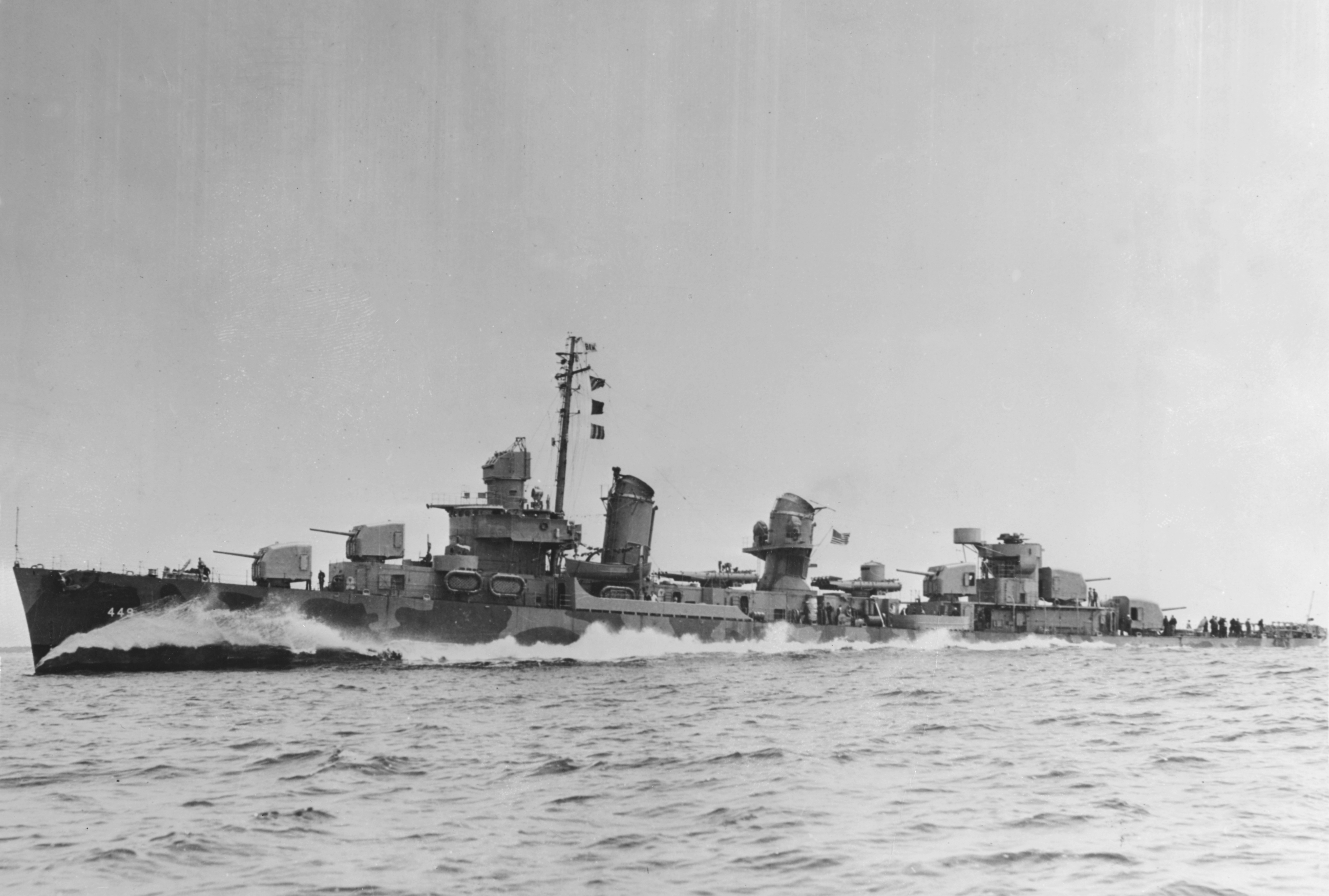 The U.S. Navy destroyer USS Nicholas (DD-449) at 36½ knots flying Bath Iron Works' house flag on acceptance trials off Rockland, Maine (USA), 28 May 1942, a week before she was commissioned.